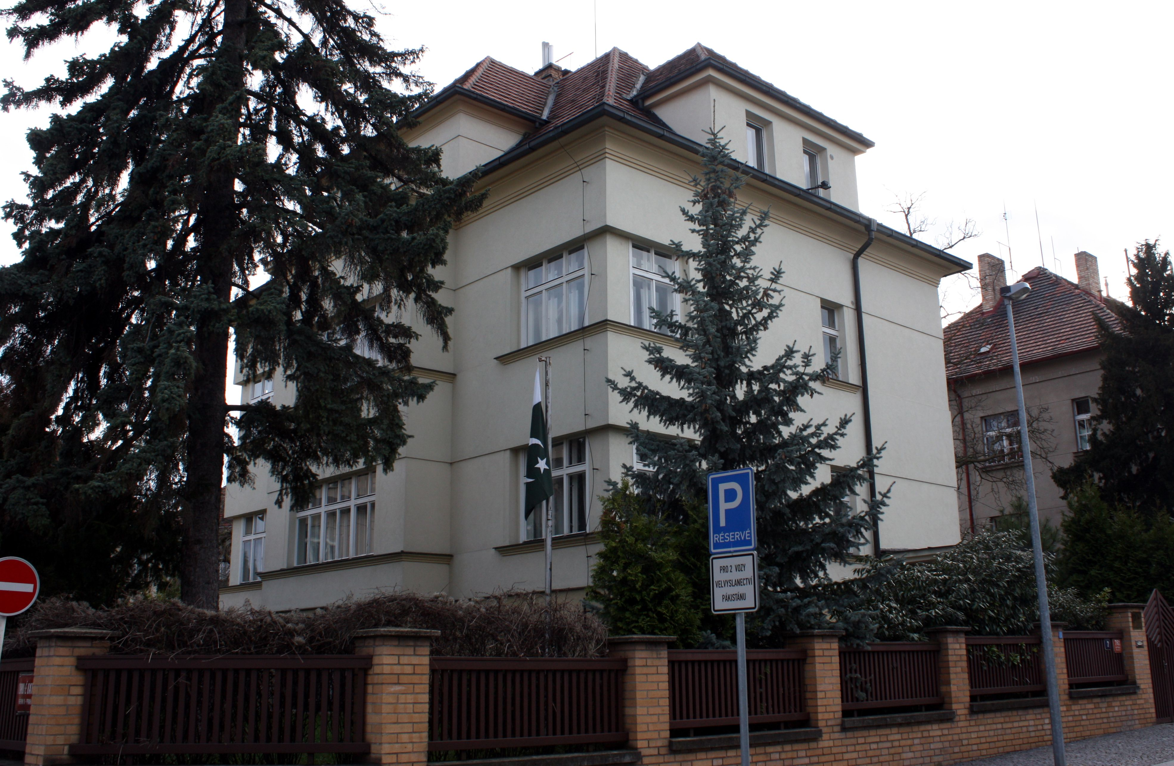 Embassy of Pakistan in Prague - Střešovice, Czechia.